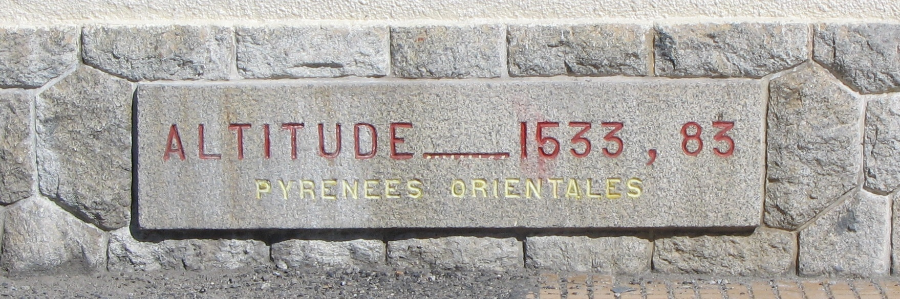 The train-station of Font-Romeu at altitude of 1533 meters.